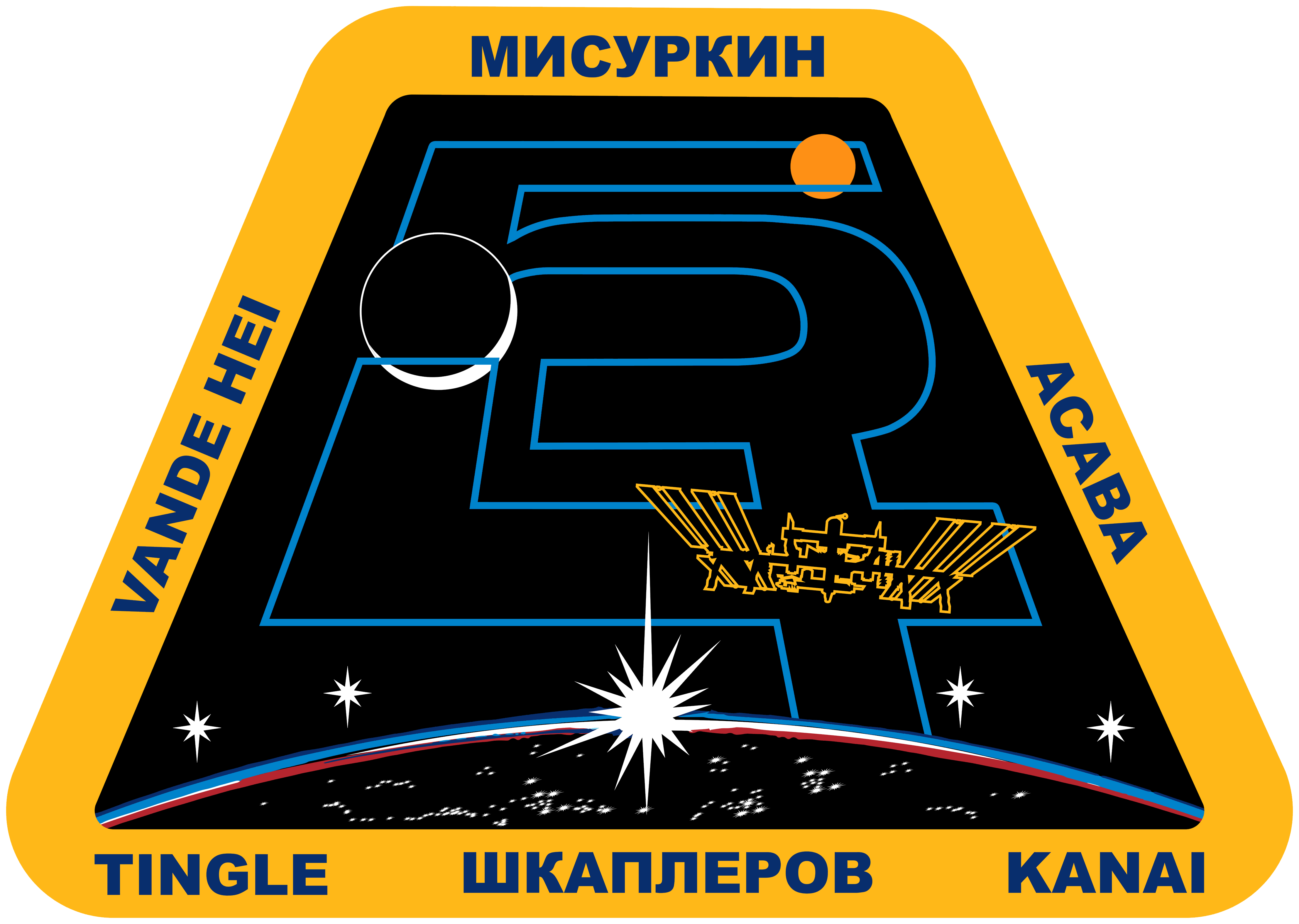 The Expedition 54 crew insignia Orbiting the Earth continuously since 1998, the International Space Station (ISS) is one of our greatest engineering achievements. It is depicted in gold, symbolic of constancy and excellence. Flying toward a sunrise represents the ISS's contributions to a bright future. That sunrise uses blue, white, and red, the combined national colors of Japan, Russia, and the United States, symbolizing the crew's cohesiveness. Crewmember names are in blue symbolizing devotion and loyalty. The gold border represents the contant human presence in space onboard the ISS. Symbolic of new Russian and U.S. spacecraft that will further human exploration, the patch is shaped as a capsule. The number 54 is drawn as a path eventually leading to Mars. Finally, the stars symbolize the values of leadership, trust, teamwork, and excellence lived by mission control teams throughout the history of human space programs, as well as the global vigilance of those teams while operating the ISS.